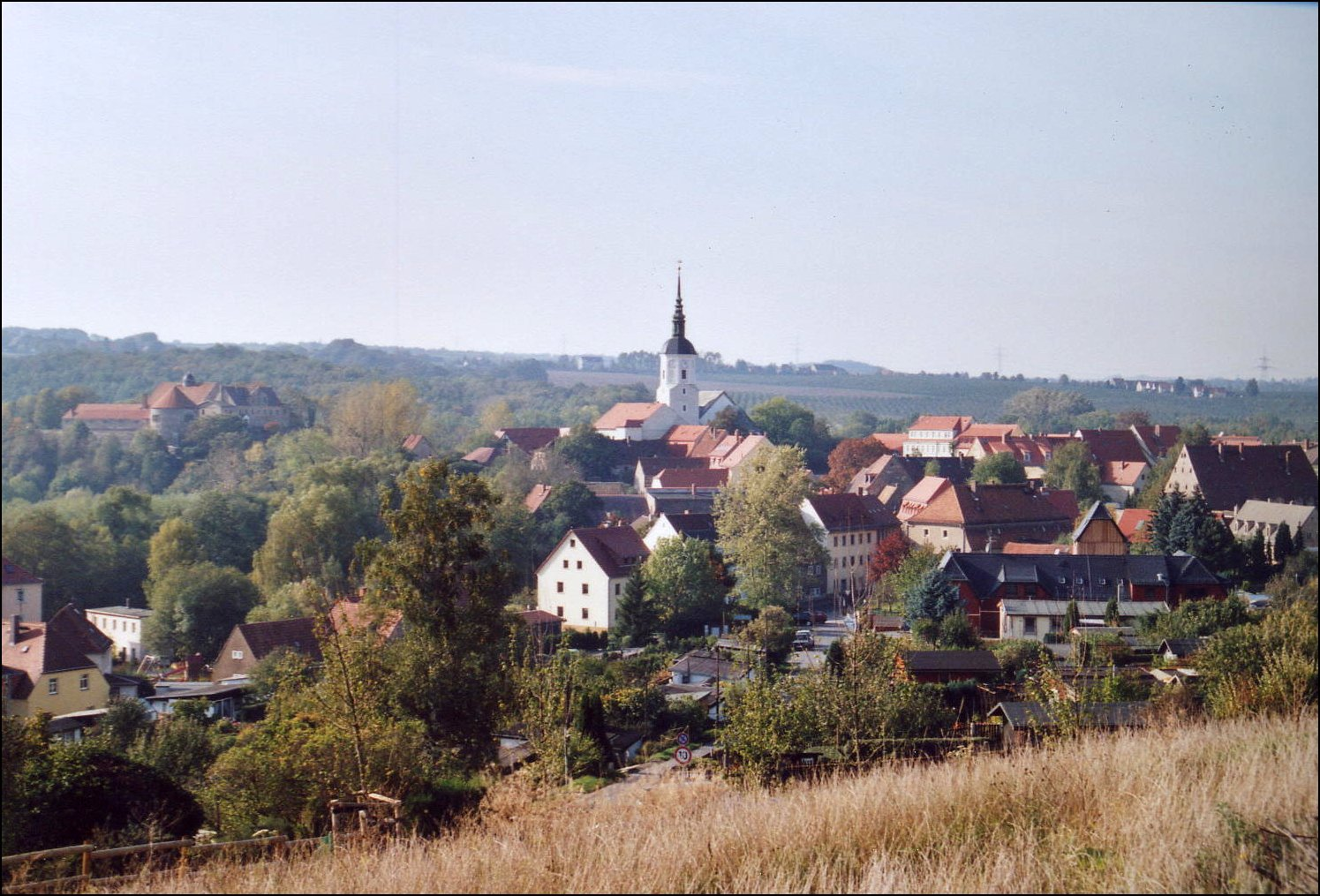 Dohna: view on castle and town.